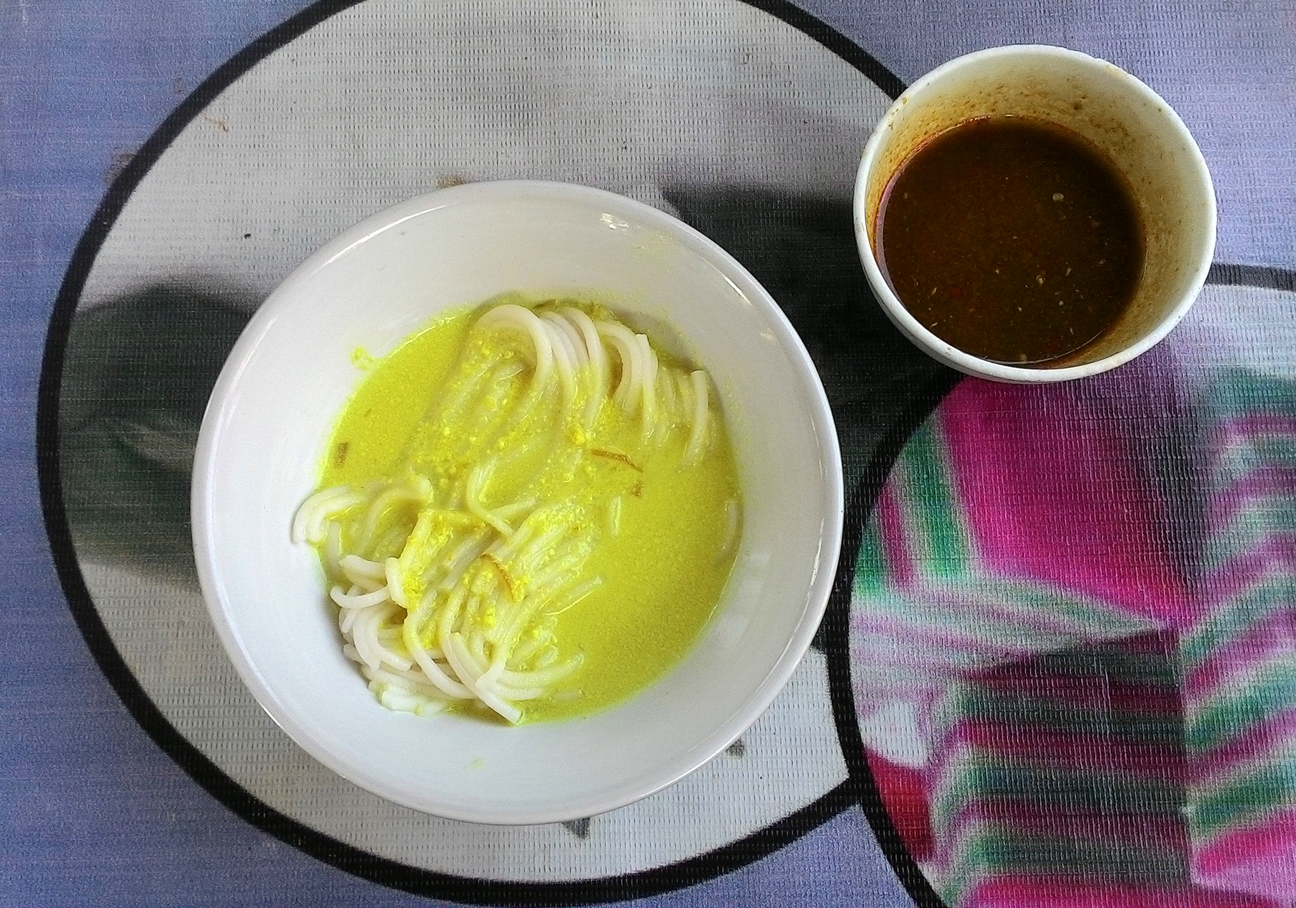 Lakso, thick rice noodles, served in spiced yellow turmeric and coconut milk soup. Served with sambal spicy sauce. Specialty of Palembang cuisine, South Sumatra, Indonesia.